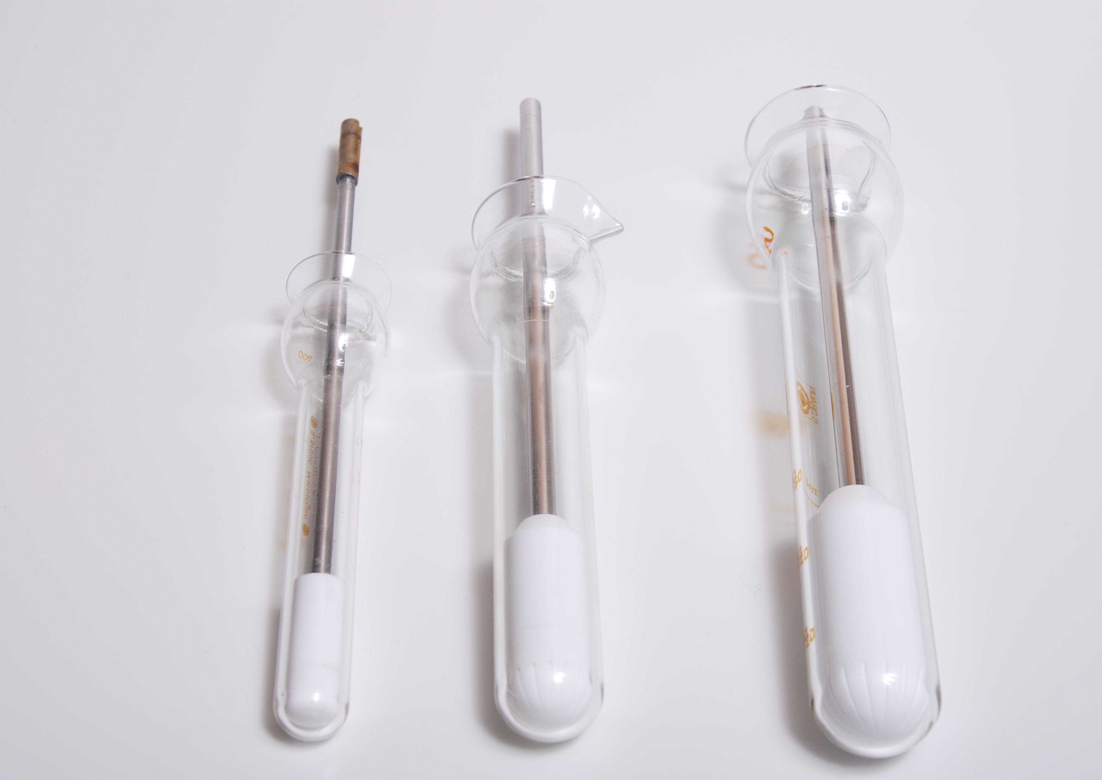 Glass and teflon tissue Dounce homogenizer